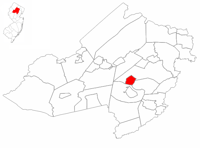 Position of Morris Plains (highlighted in red) in Morris County. Morris County's position in New Jersey is in turn highlighted in red.